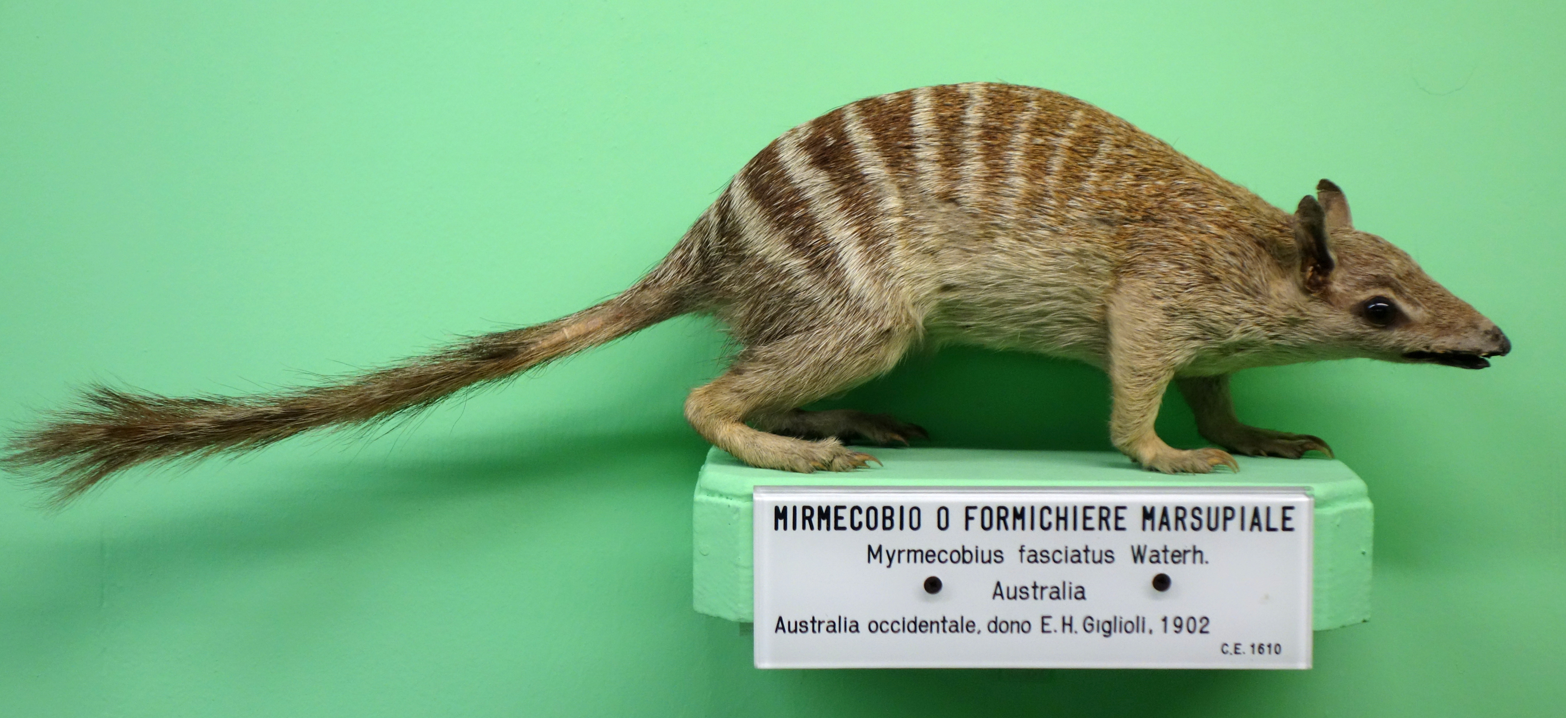 Exhibit in the Museo Civico di Storia Naturale di Genova, Via Brigata Liguria, 9, 16121, Genoa, Italy.